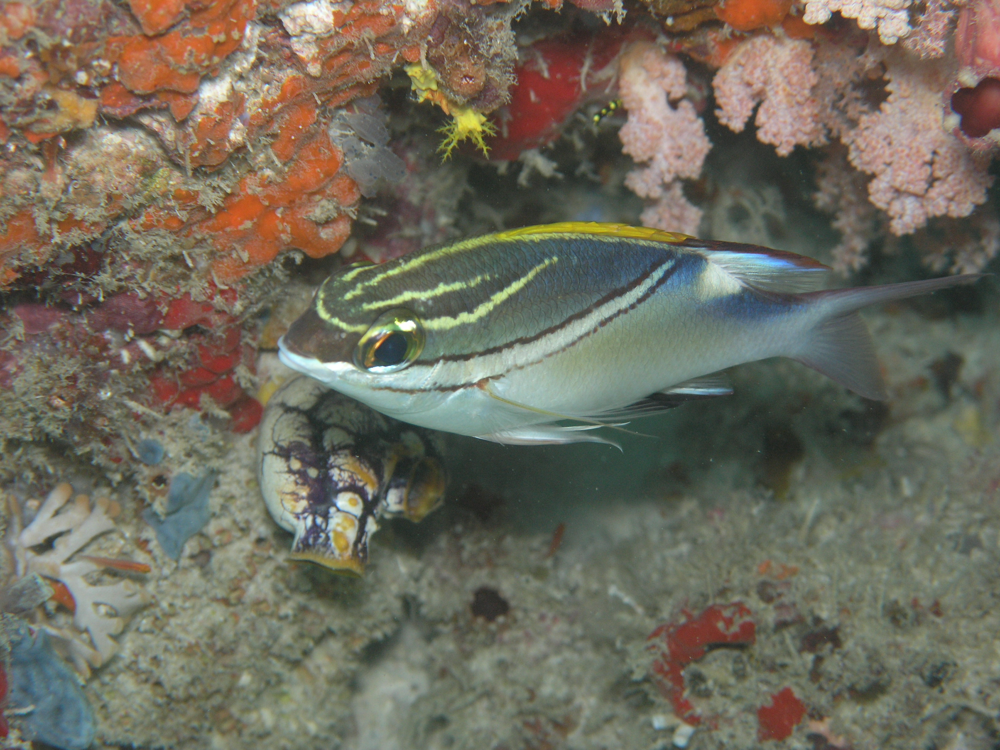 Image of a Two-lined monocle bream. Scolopsis bilineata. Taken off Sipadan, Borneo, Malaysia.`